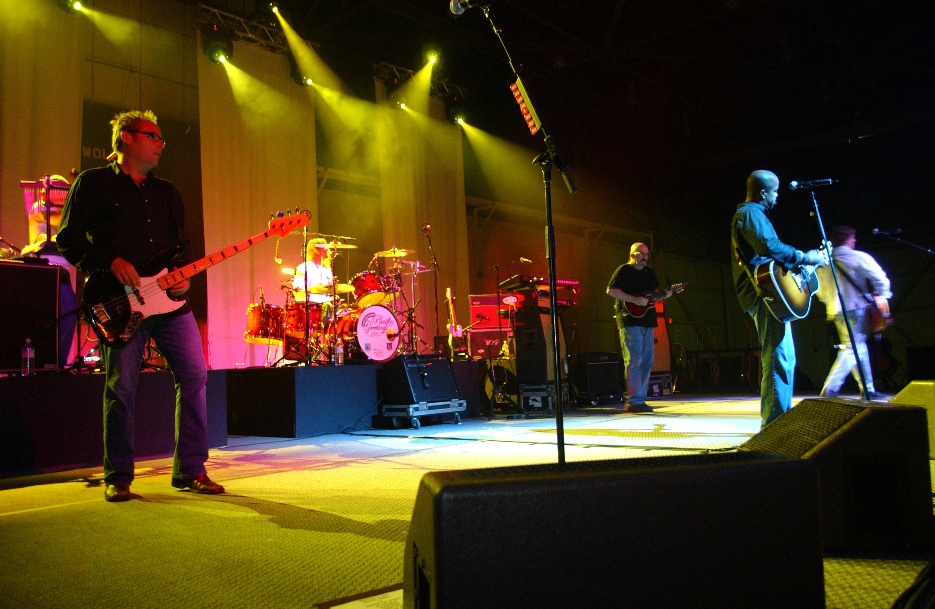 On stage the famous Hootie and the Blowfish perform during Operation Pacifc Greetings which also features the New England Patriot Cheerleaders and Air Force Reserve Band at Kunsan Air Base (AB), South Korea (ROK).